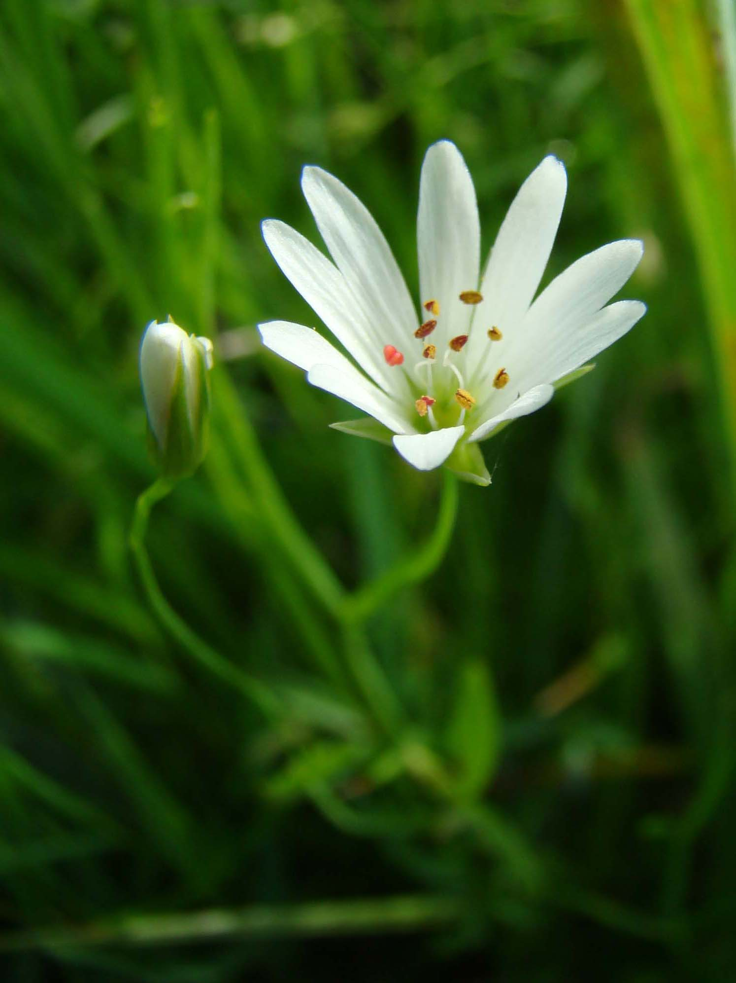 Herbaceus plant wich growing in wet grassland